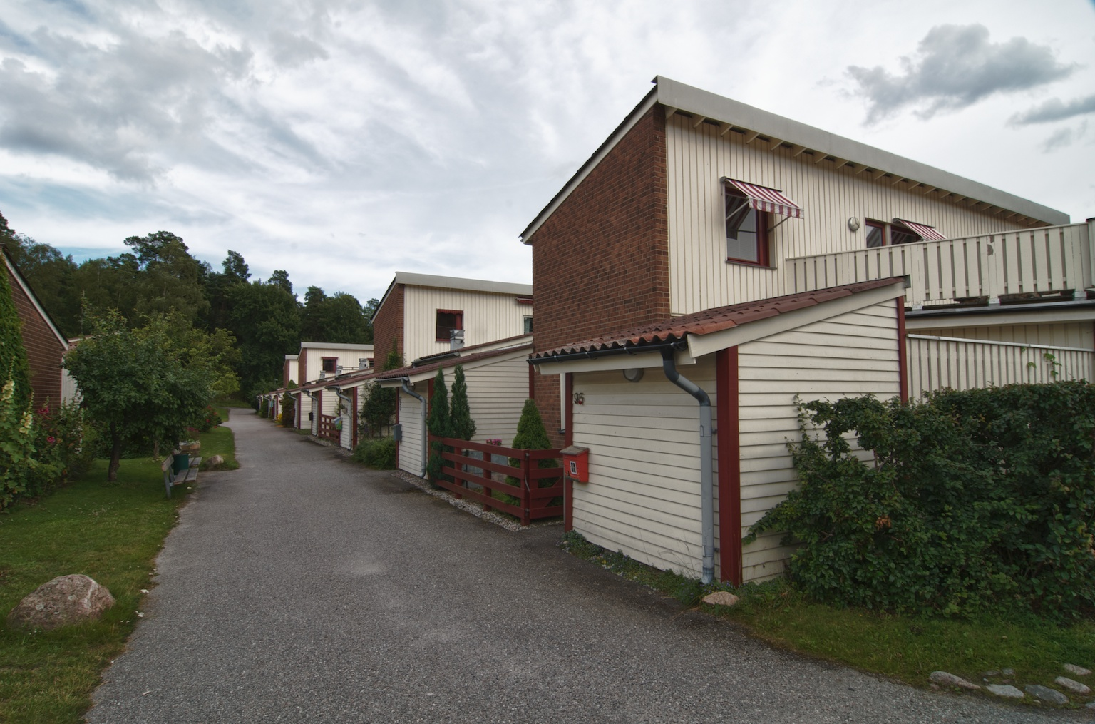 Typical buildings in Tegelhagen